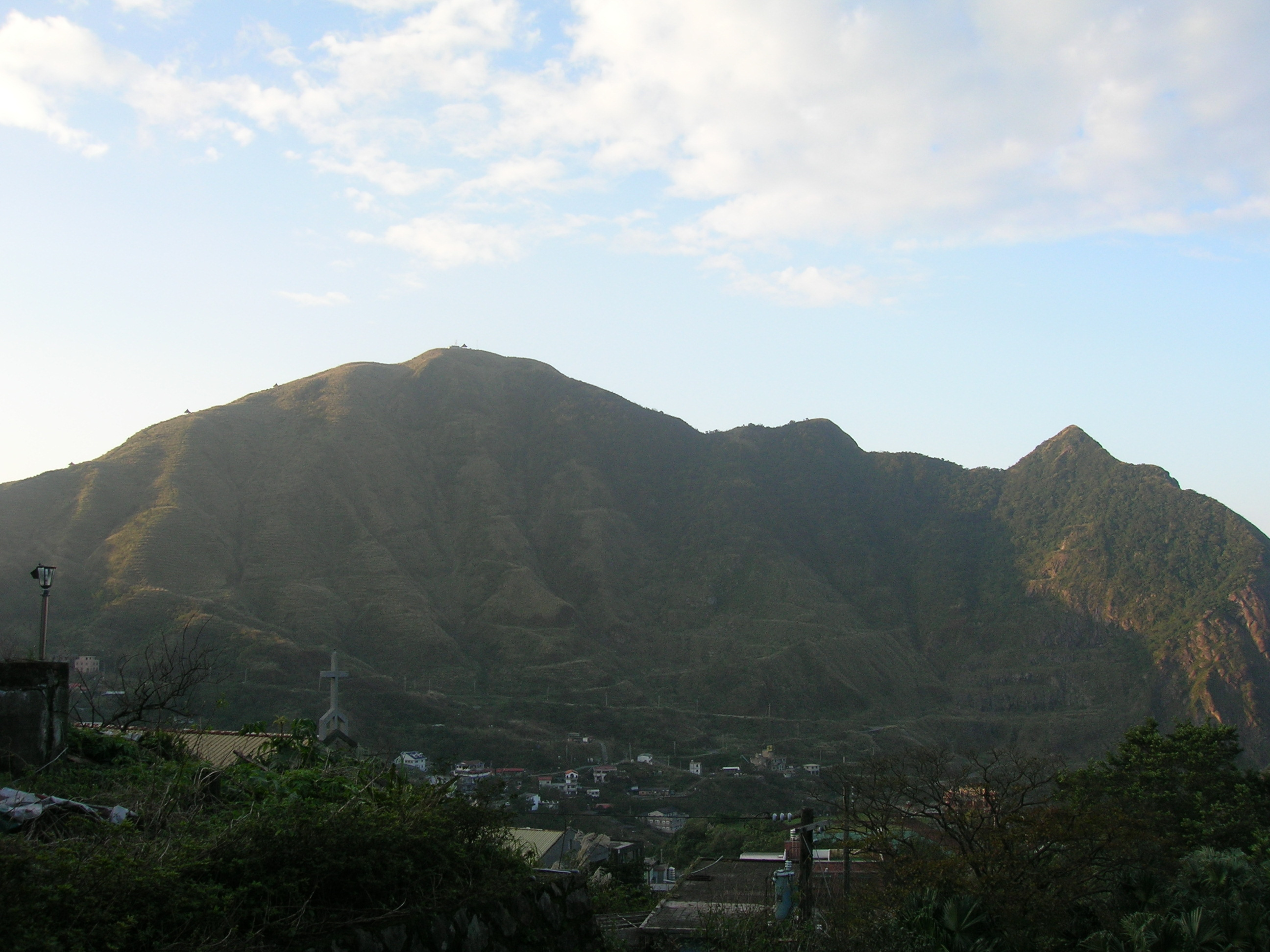 Keelung Mountain, Taiwan.